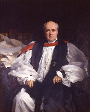 Randall Davidson (1848-1930). This version cropped but to maintain all image quality information 4 pixels cropped away from right edge.